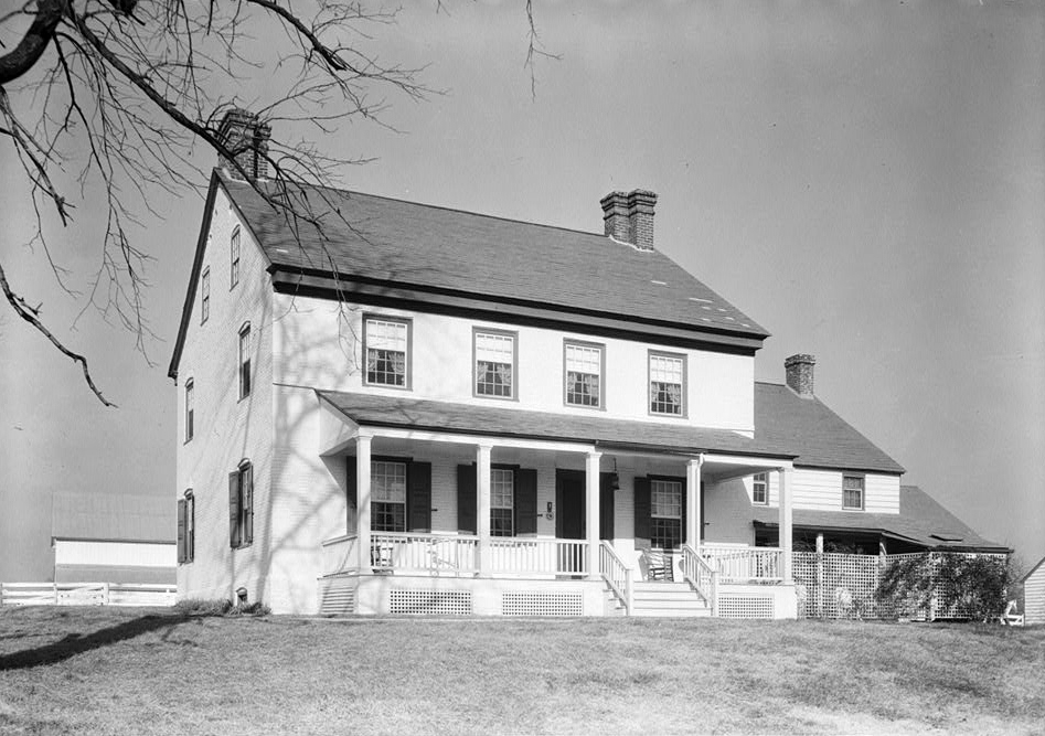 Great House Plantation on Mitton Road, Saint Augustine, Cecil County, Maryland, USA. Cropped. On the National Register of Historic Places.